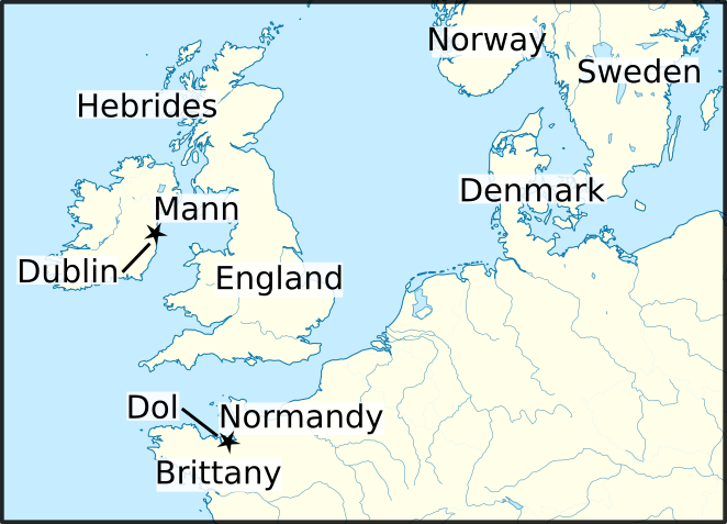 Map showing various places mentioned in the Wikipedia article concerning Lagmann mac Gofraid, King of the Isles.